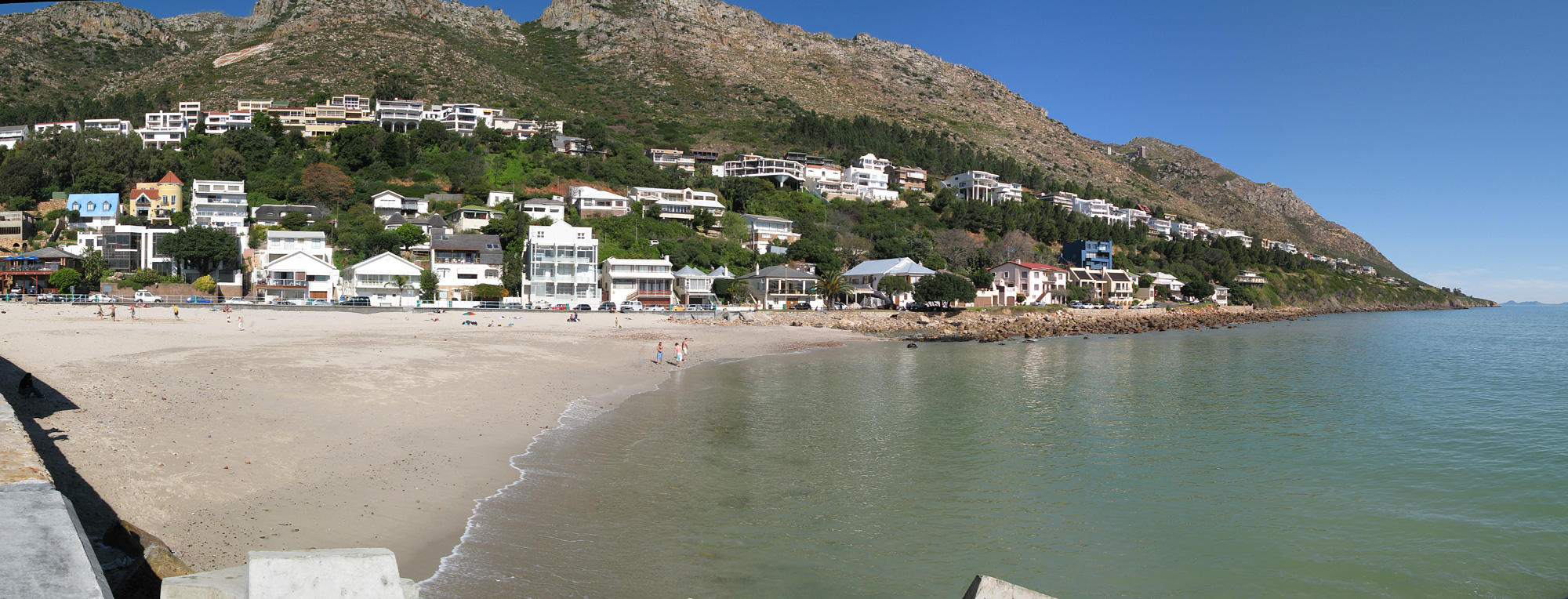 Bikini Beach, Gordon's Bay